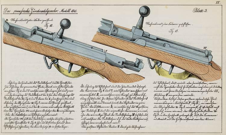 Dreyse needle gun